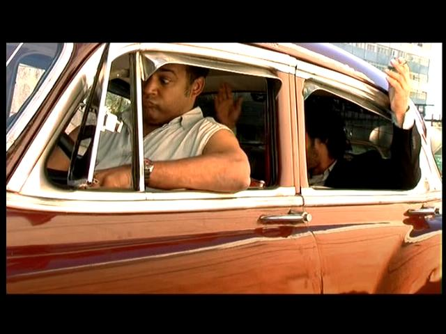 created by Bobbi Miller-Moro, the independent American Film Love & Suicide (2005). Cuban-American actor Luis Moro.